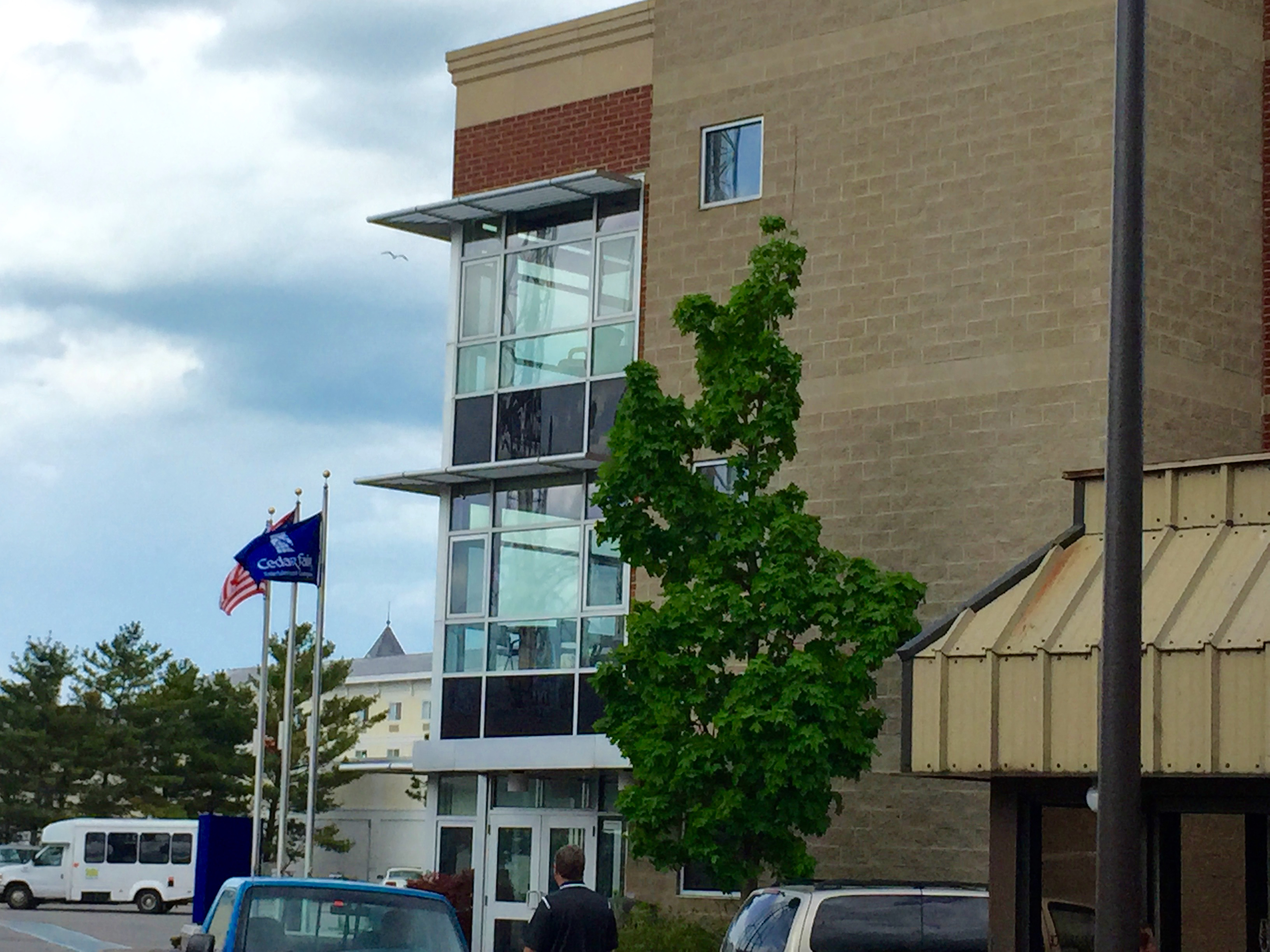 View of Cedar Fair headquarters at Cedar Point in Sandusky, Ohio.